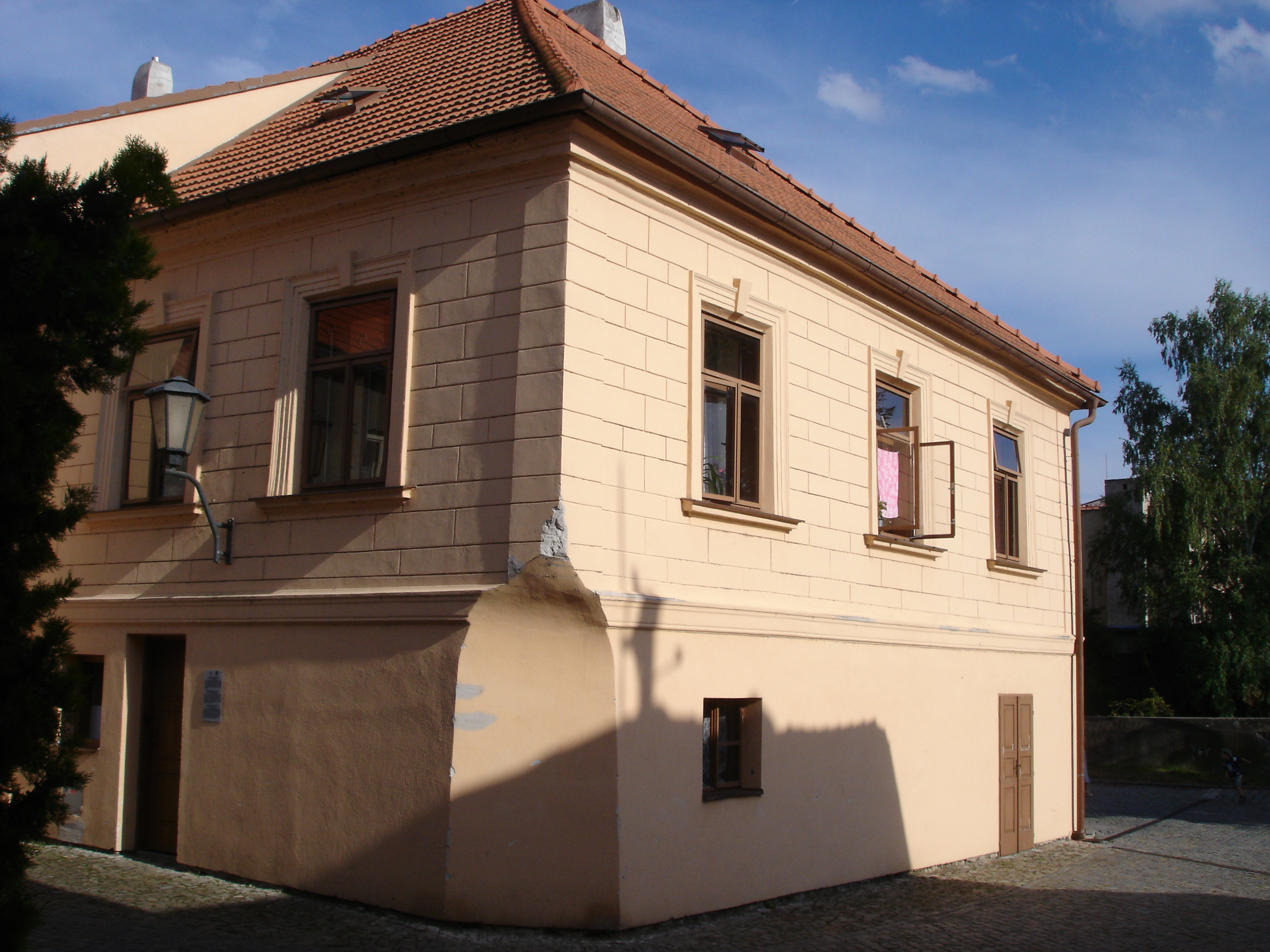 Old town hall in Třebíč Jewish quarter.